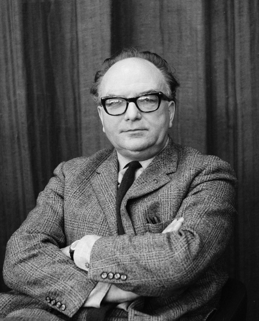 Conferentie door de Dr. Wiardi Beckman stichting, een van de sprekers is architect prof. J.B. Bakema